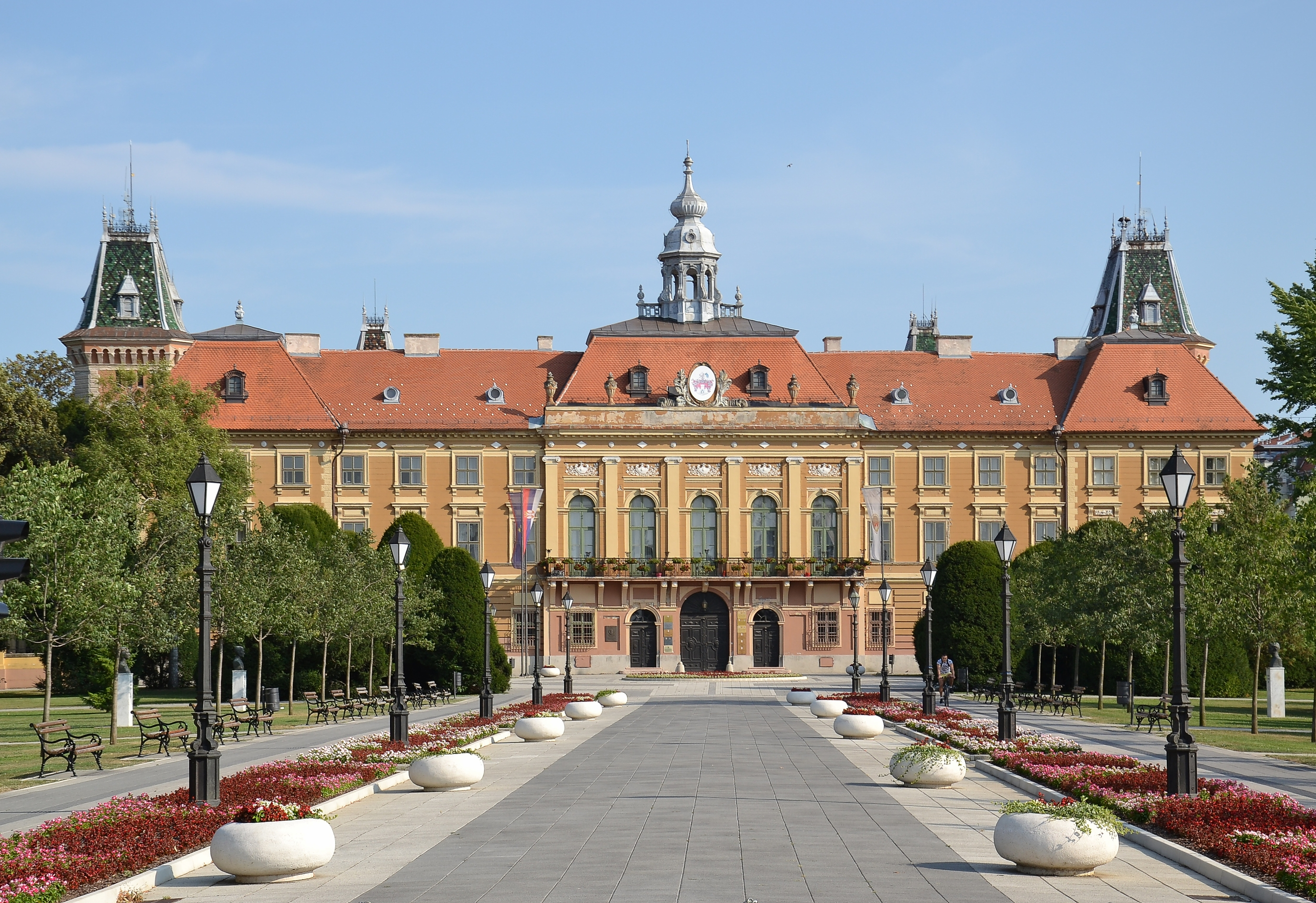 Town hall in Sombor (Zombor), Vojvodina